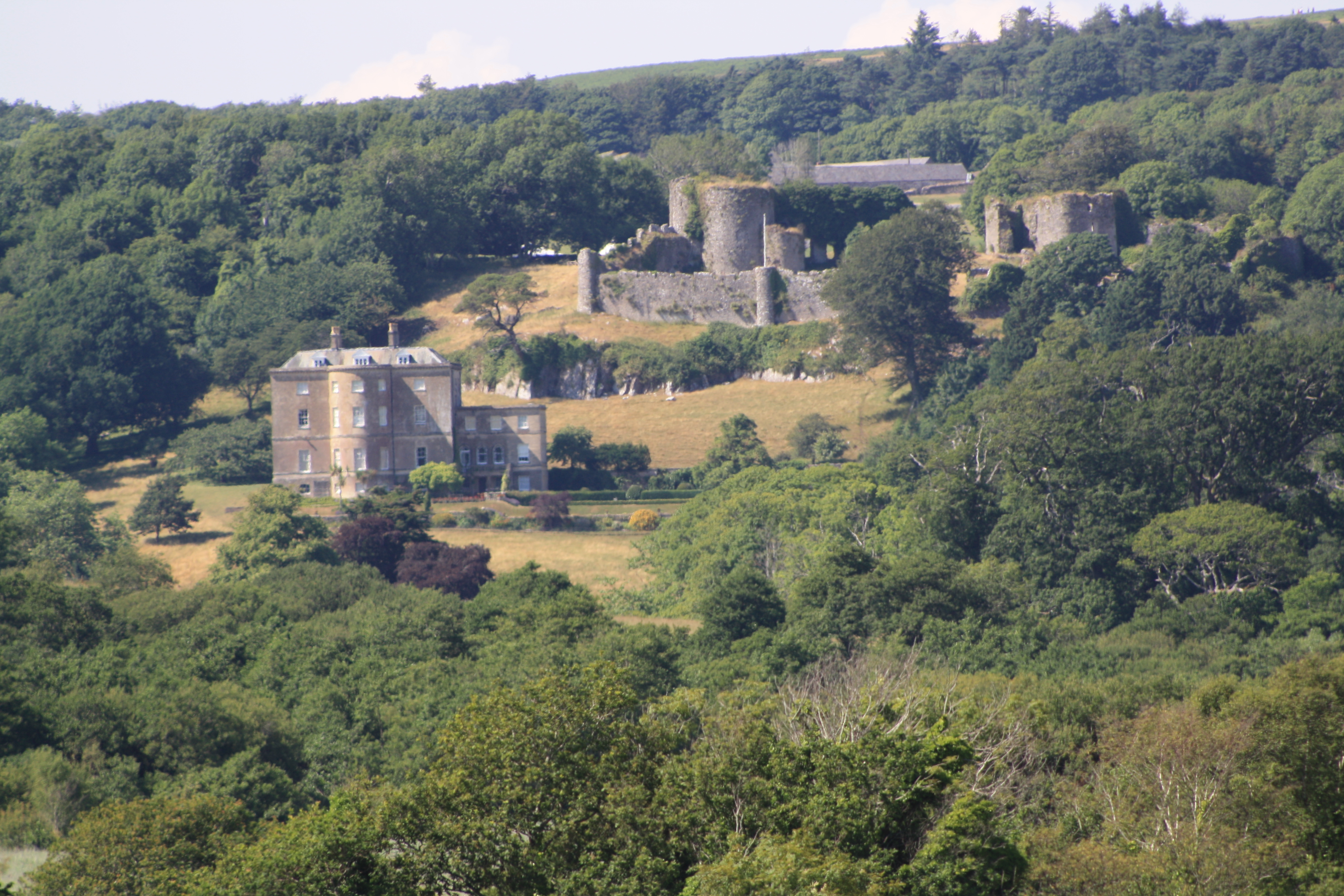 Penrice Castle, Gower, Wales, View from Oxwich Bay